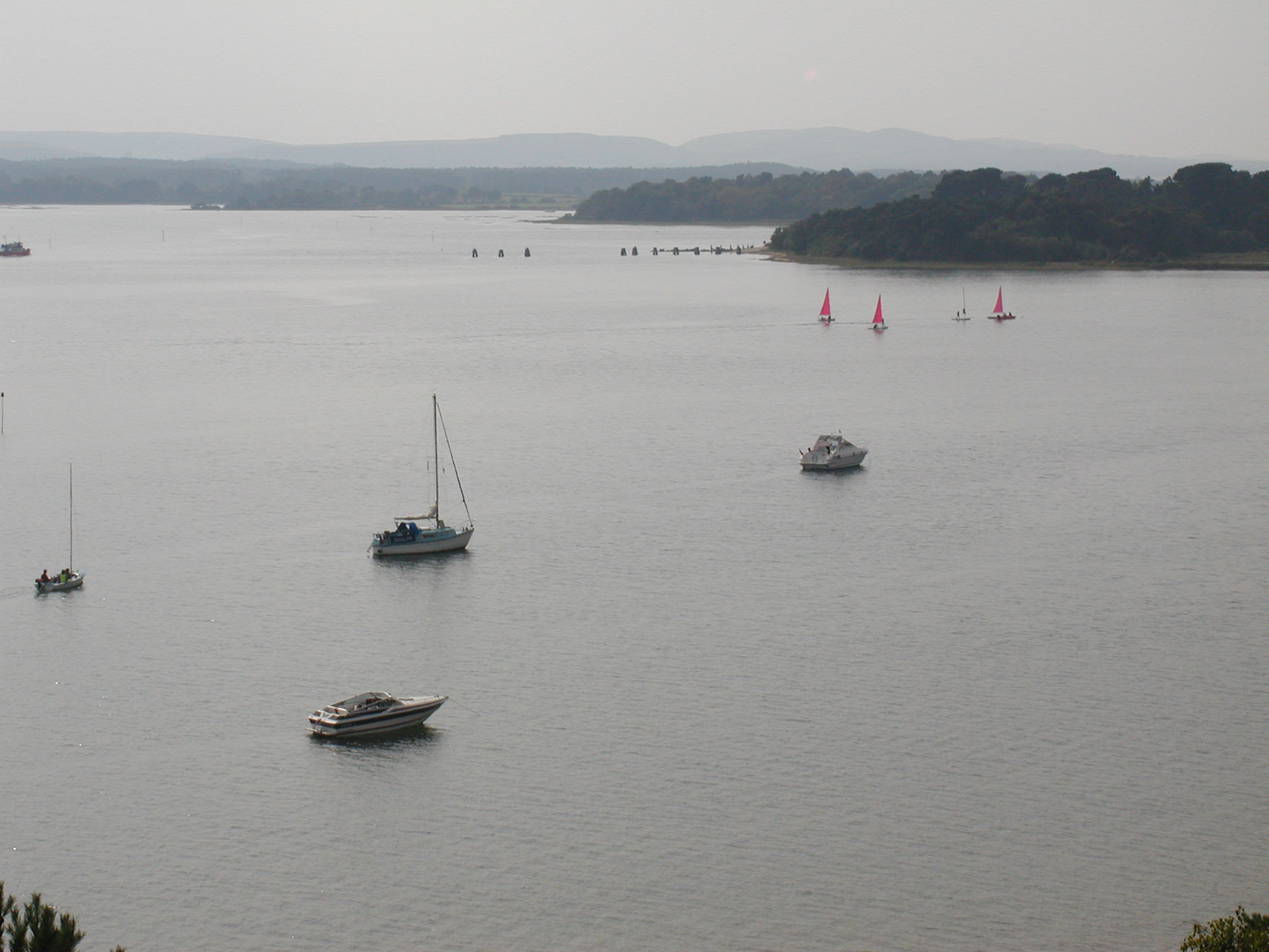 A quiet corner of Poole Harbour. This view shows approximately a fifth of the harbour’s total water area. Taken by Adrian Pingstone in September 2002 and released to the public domain.